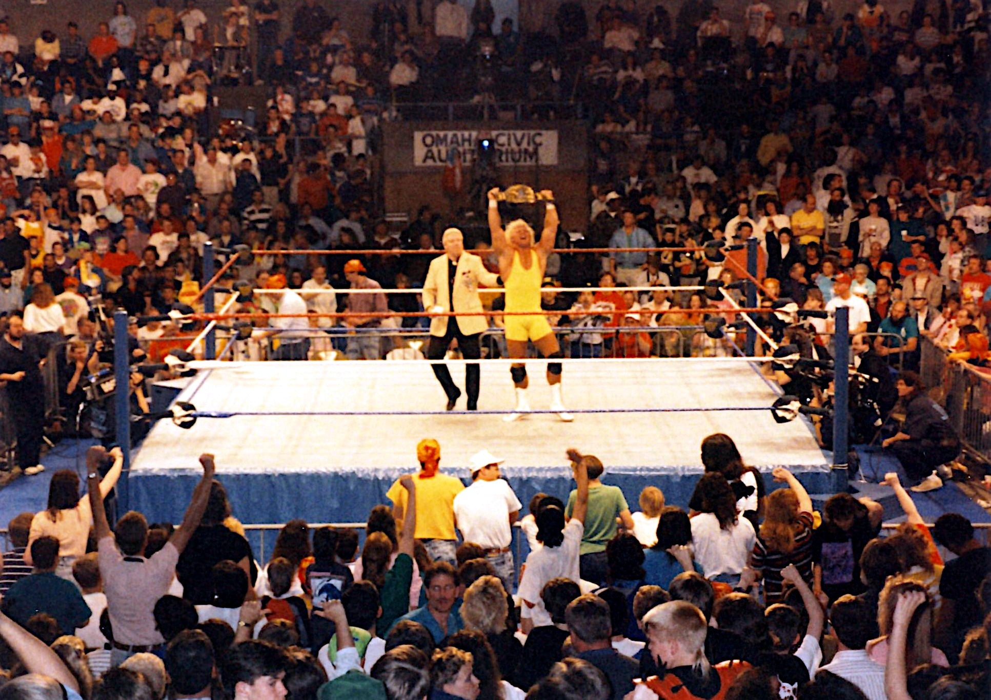 WWF Intercontinental Champion Mr. Perfect celebrating with his manager Bobby Heenan after winning a 20-man battle royal on WWF Saturday Night's Main Event taped on April 15, 1991 in Omaha, Nebraska, USA and airing on April 27, 1991